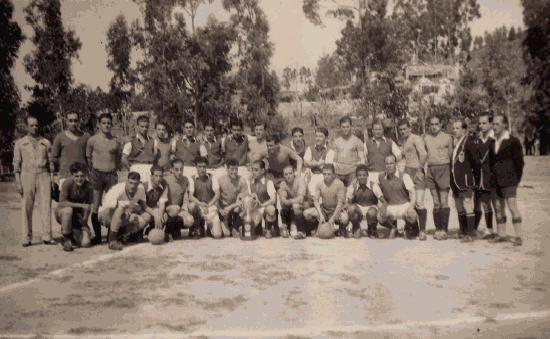 Digitalized photography of a football match in 1945